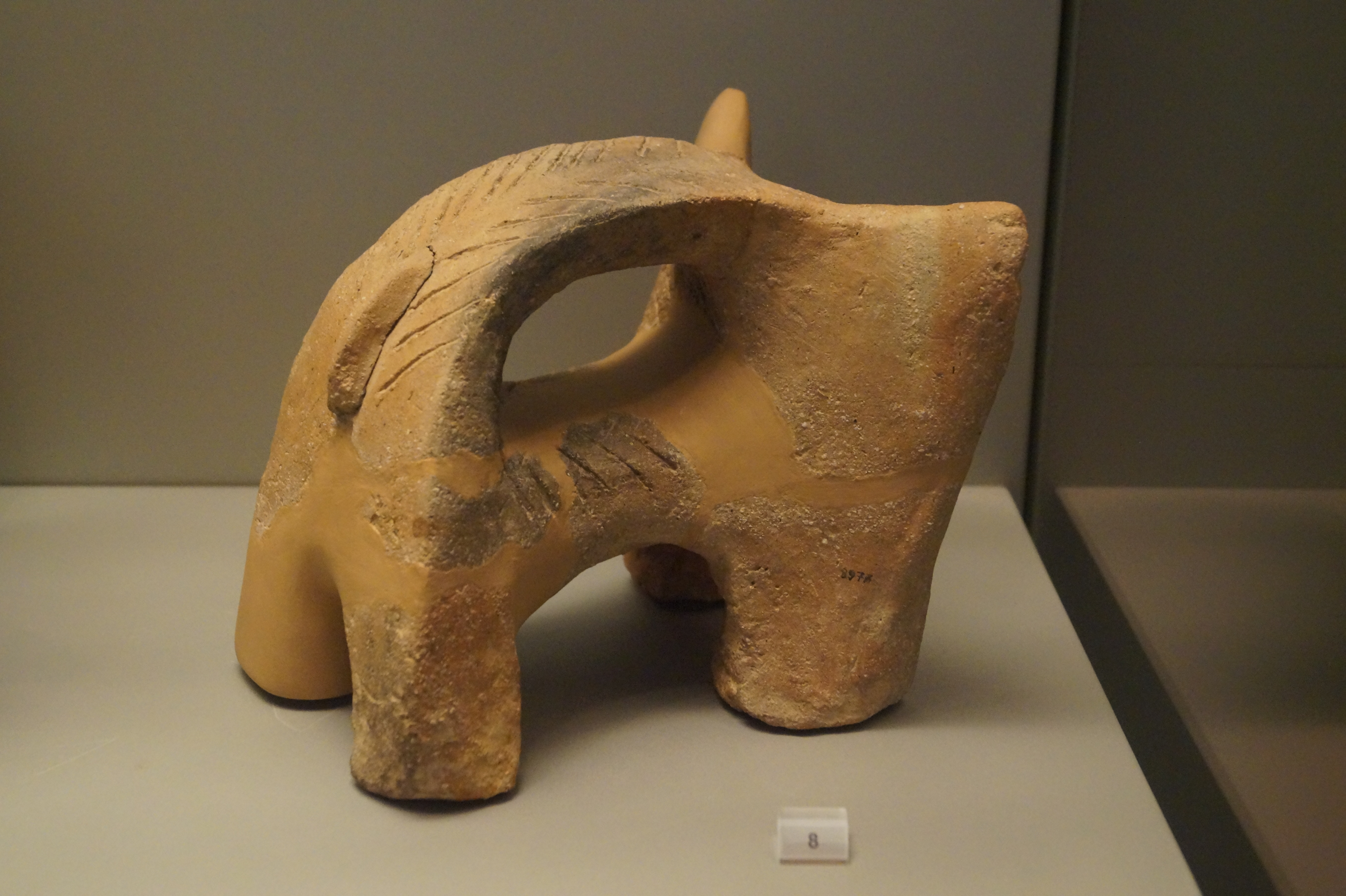 National Archaeological Museum of Athens: Clay heavy four-legged implement of unknown use from the Early Bronze Age cemetery on the promontory of Agios Kosmas in Attica.